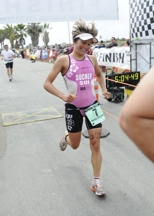 Renata Bucher at 2009 Superfrog Triathlon in Coronado, California